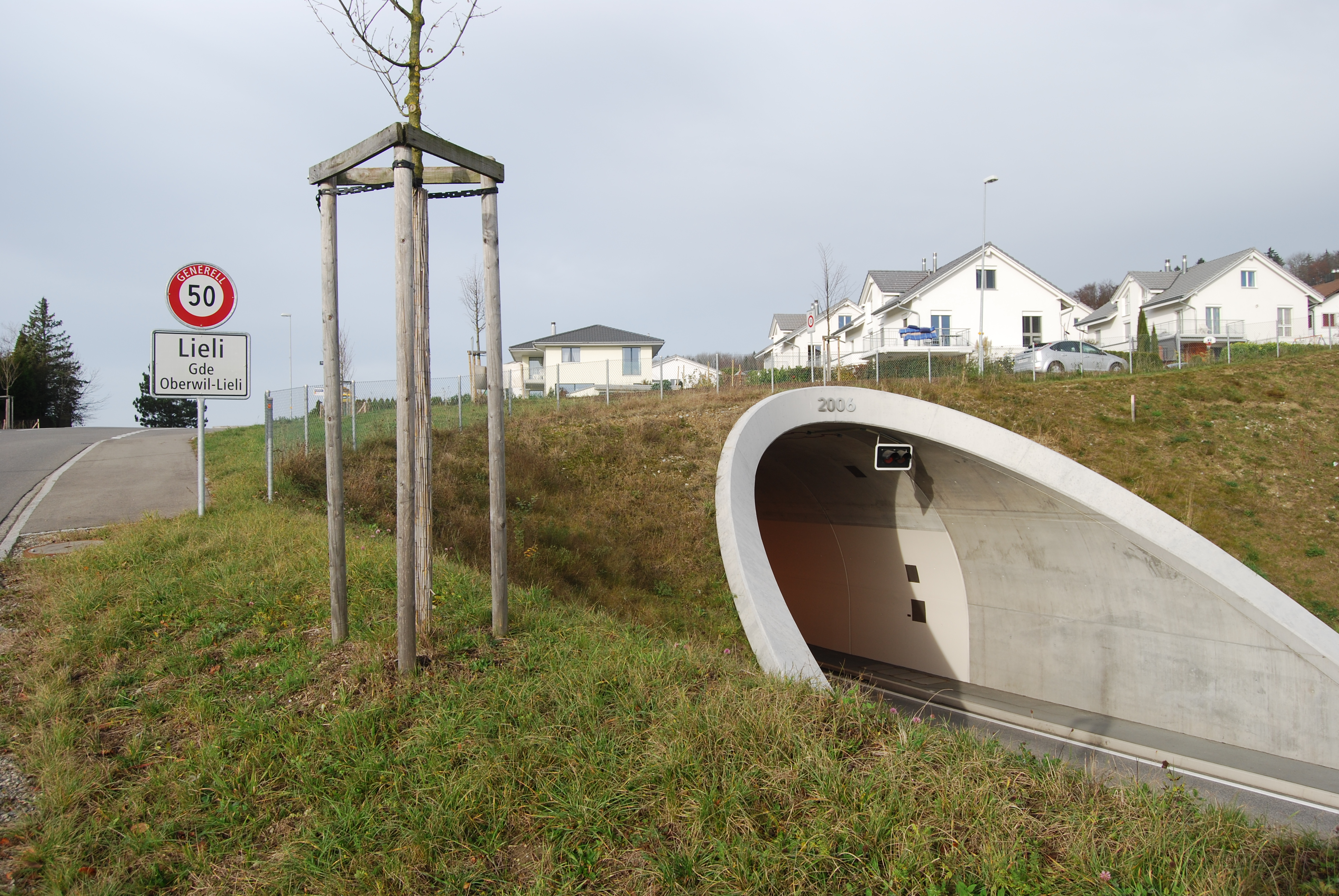 Tunnel of the Lieli bypass road, municipality of Oberwil-Lieli, canton of Aargau, SwitzerlandEsperanto: Tunelo de la preterpasejo de Lieli, komunumo Oberwil-Lieli, Kantono Argovio, Svislando